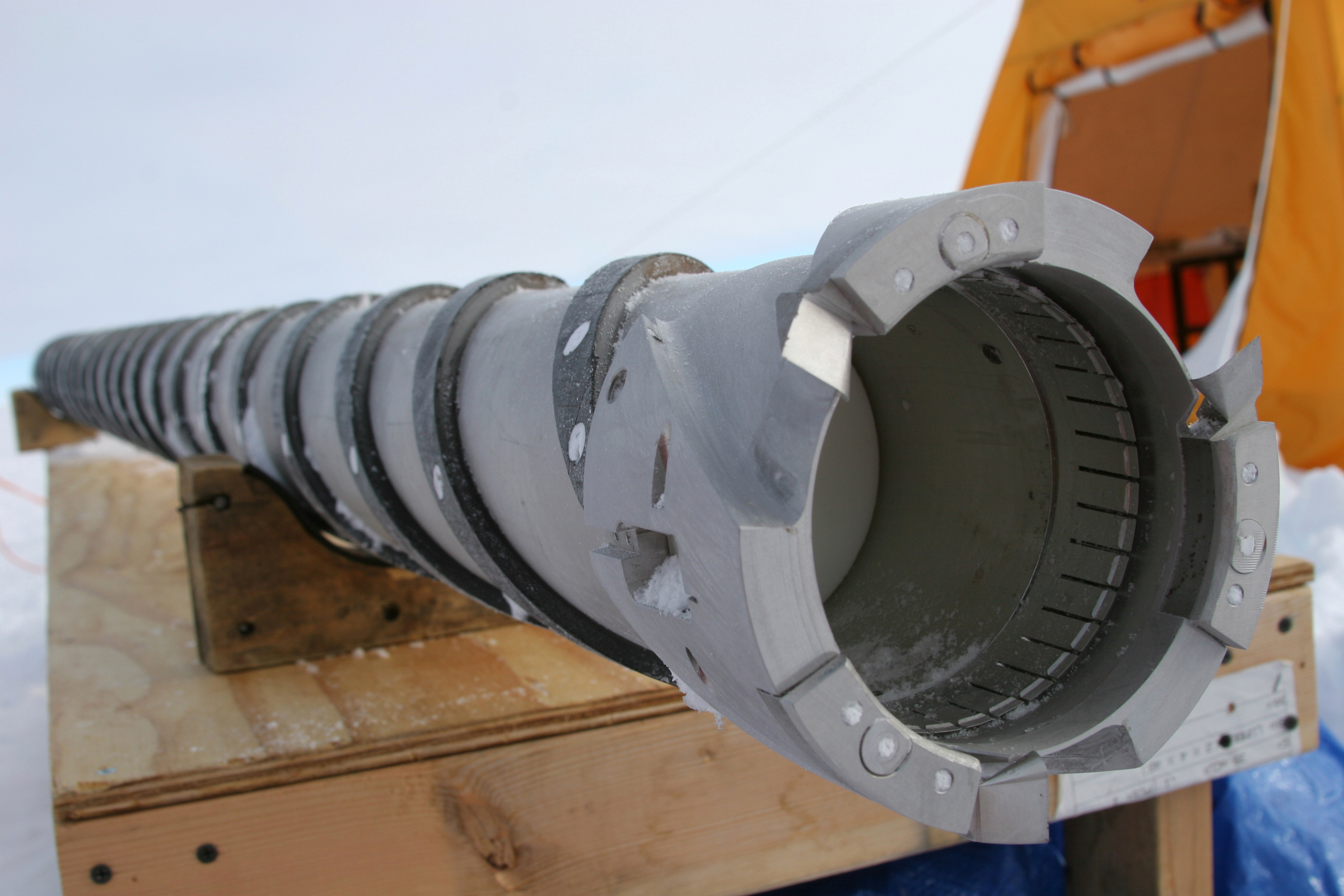 An ice core drill lies on a table revealing the scoop cutters and collet (the metal ring just inside the drill). Both features are new to ice core drilling and were tested at WAIS this summer. Dec. 6, 2006